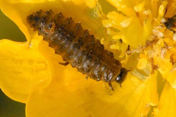 Hydrothassa marginella from Commanster, Belgian High Ardennes .